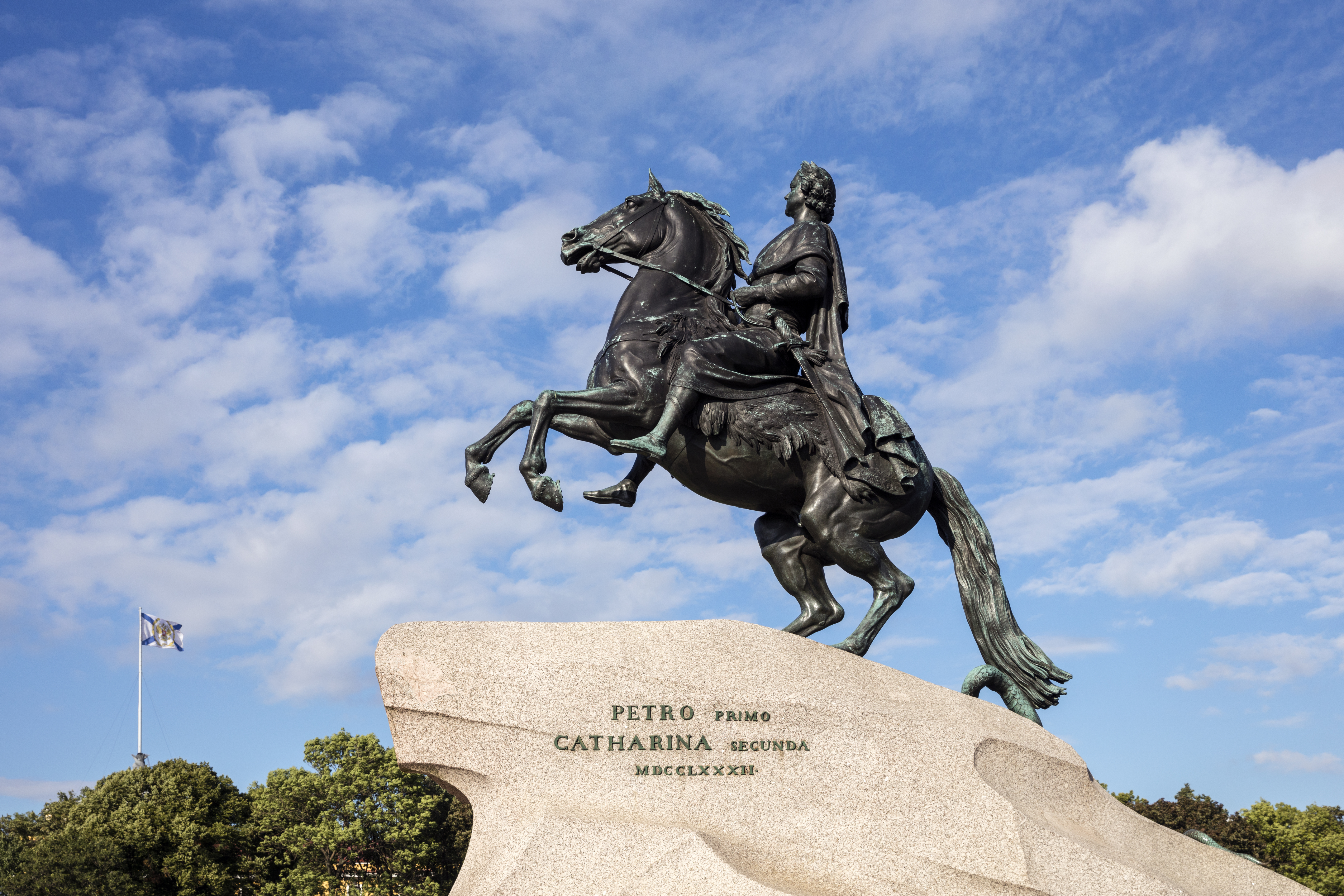 Bronze Horseman monument of Peter the Great by Falconet, Senate Square, Saint Petersburg, Russia.